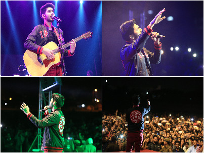 Armaan malik performed live at Blitzschlag 17.